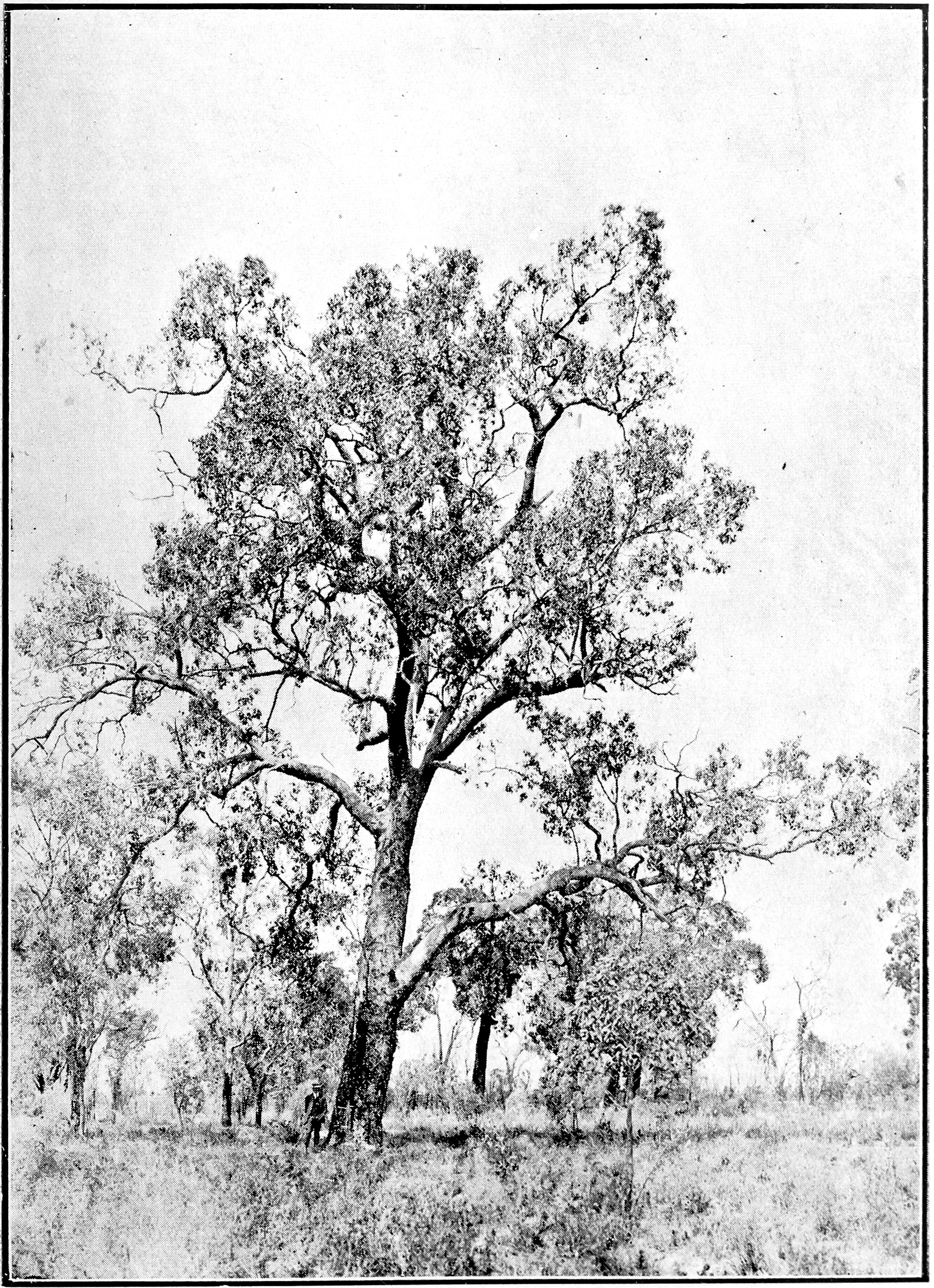 Photograph illustrating source